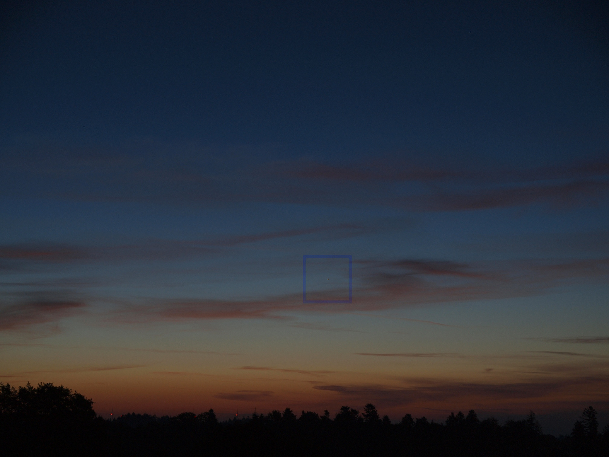 Planet Mercury visible shortly before sunrise